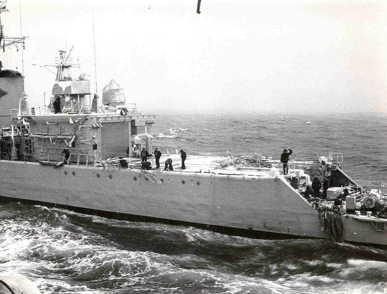 Whilst patrolling the Fareoes Iceland gap a very large wave swept over the Yarmouth and did considerable damage to the ship as can be seen by close inspection of the image. I took the photo from RFA Tidepool when she came alogside to RAS The power of the sea is awesome